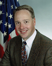 This image of Michael D. Gallagher was taken from the National Telecommunications and Information Administration's website [1]. A work of a US federal agency, it is in the public domain.